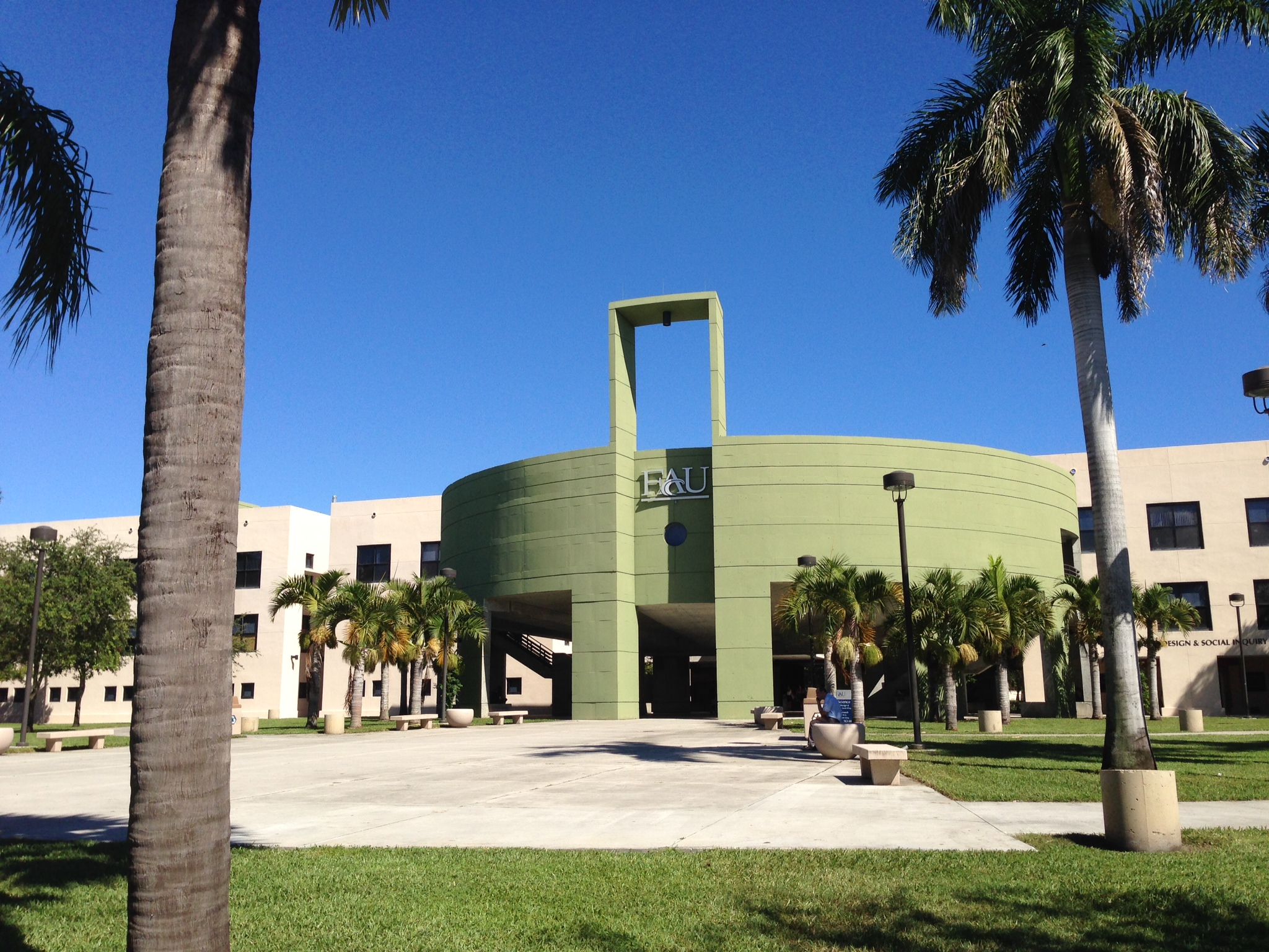 FAU's Social Science Building (Dept. of Anthropology, College of Design and Social Inquiry are housed here)